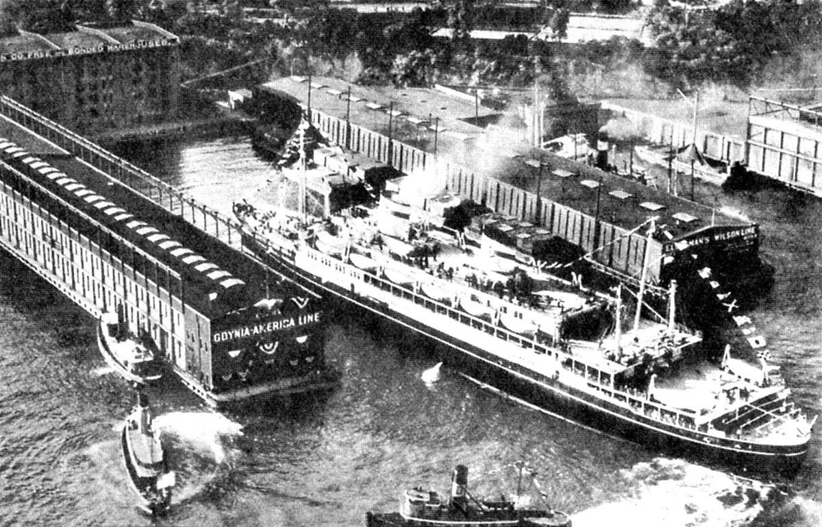 Polish Passenger Ship MS Batory in New York Docks 1936